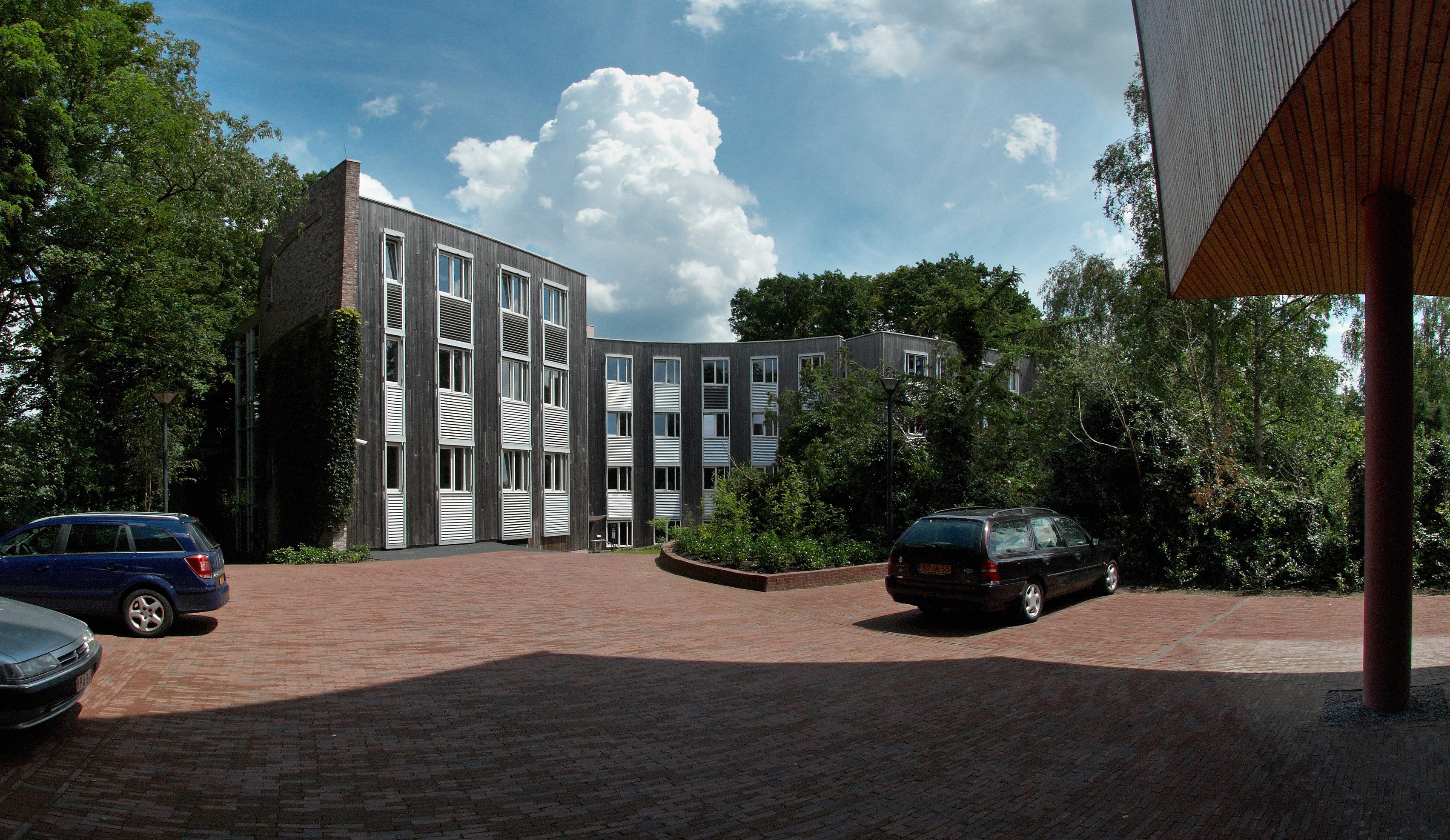 Triodos Bank in Zeist, the Netherlands